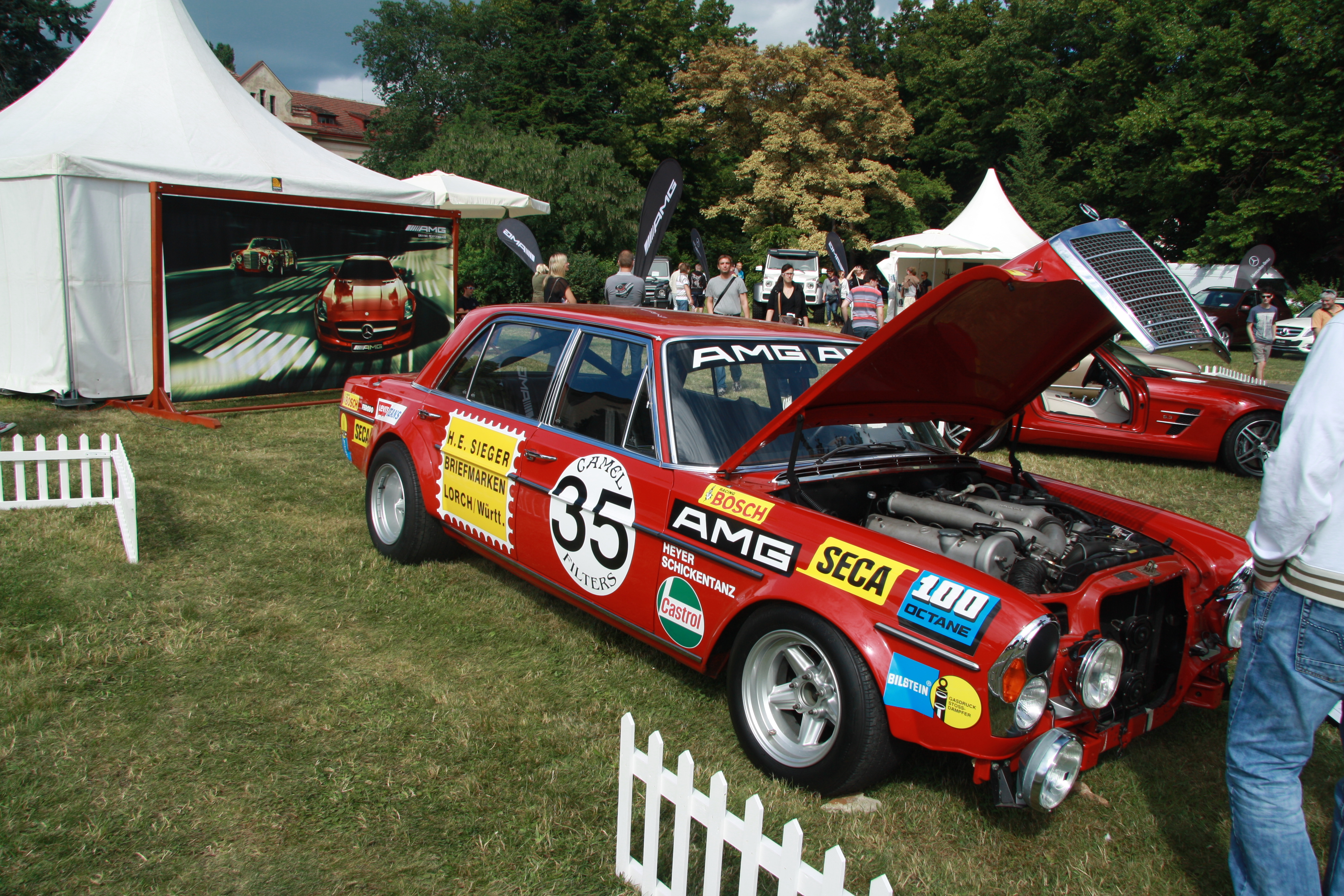 Mercedes-Benz 300 SEL 6,8l AMG "Rote Sau" at Legendy 2014.